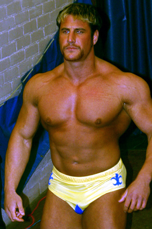 René Duprée makes his entrance on a WWE house show held in Kitchener, Ontario, Canada.